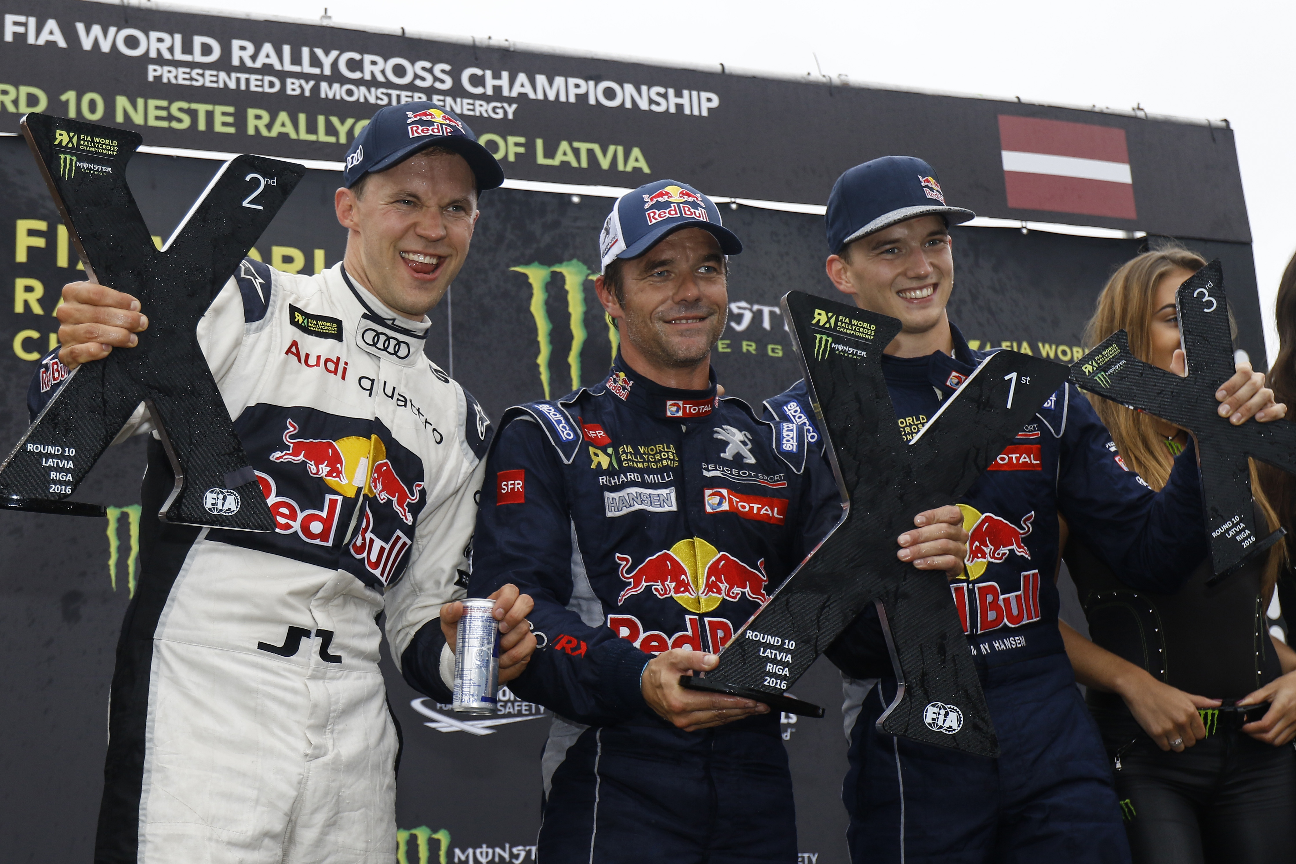 2016 FIA World RX Rallycross Championship / Round 10, Riga, Latvia, October 1-2 2016 // Worldwide Copyright:Tony Welam/EKS/McKlein